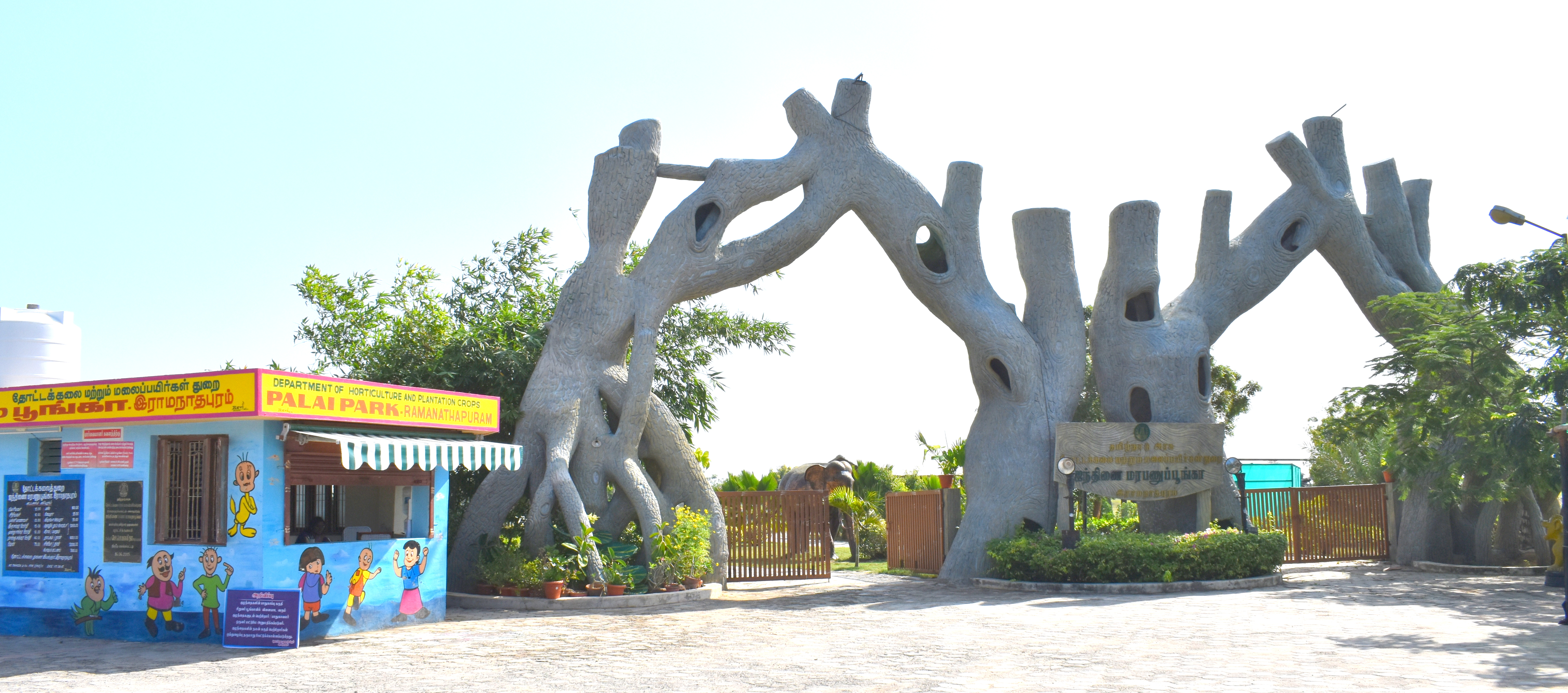 This is the entrance of palai Genetic heritage garden with the entry ticket counter on the left.